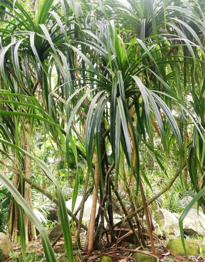 Pandanus sechellarum growing in the Seychelles Botanical Garden